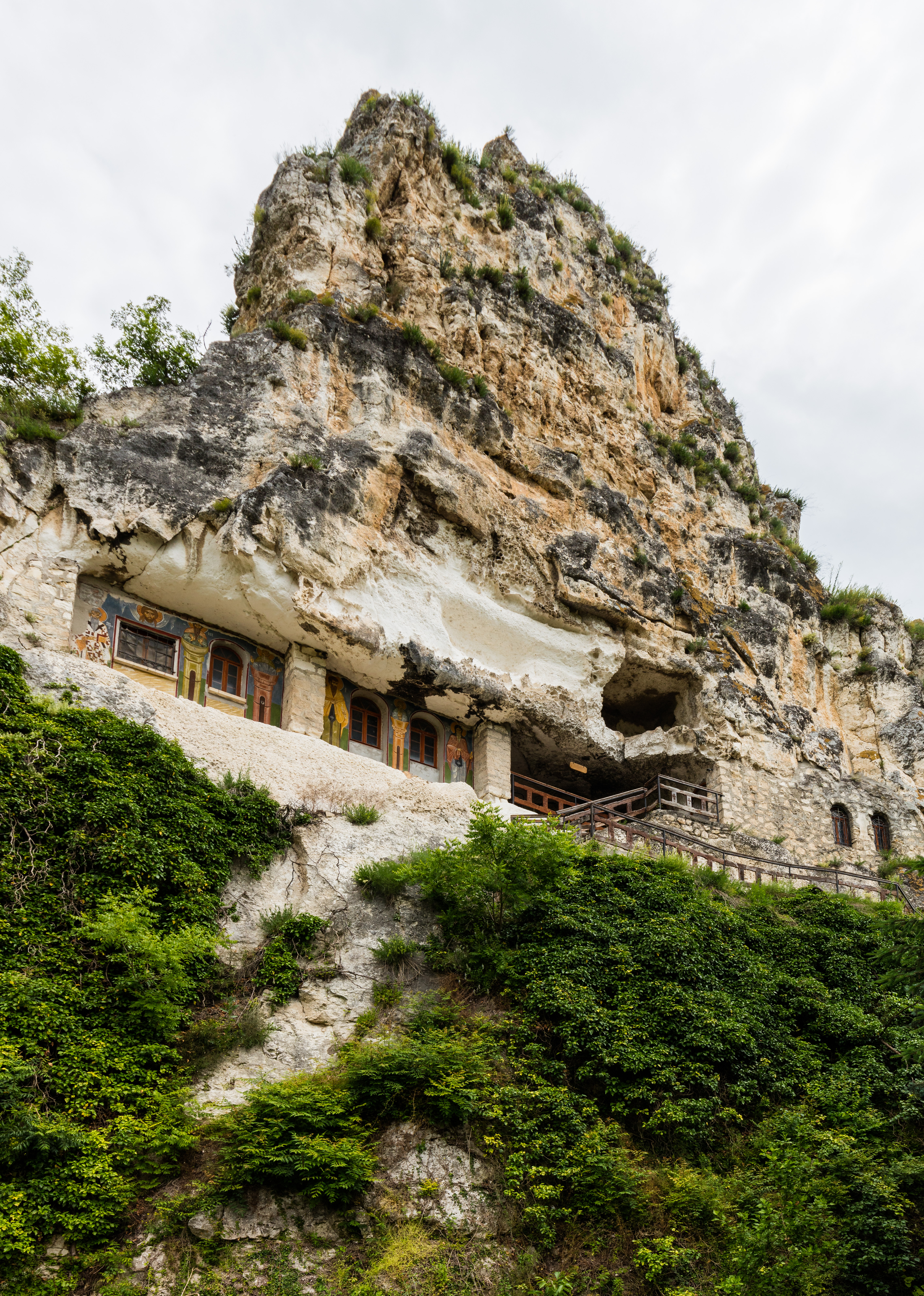 Rock-monastery "St. Dimitr Basrbovski" in Basarbovo, Bulgaria